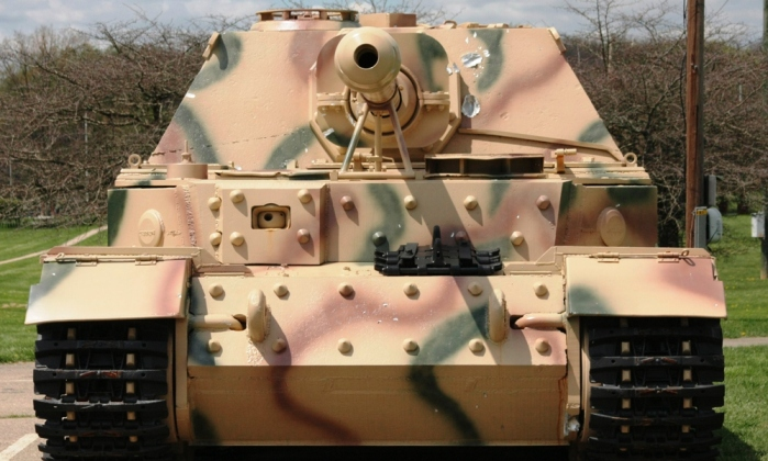 Panzerjäger Tiger Elefant tank destroyer used by German Wehrmacht in WWII. Restored by and on display at US Army Ordnance Museum, Aberdeen, Maryland. Photograph taken by Scott Dunham, April 23, 2009.